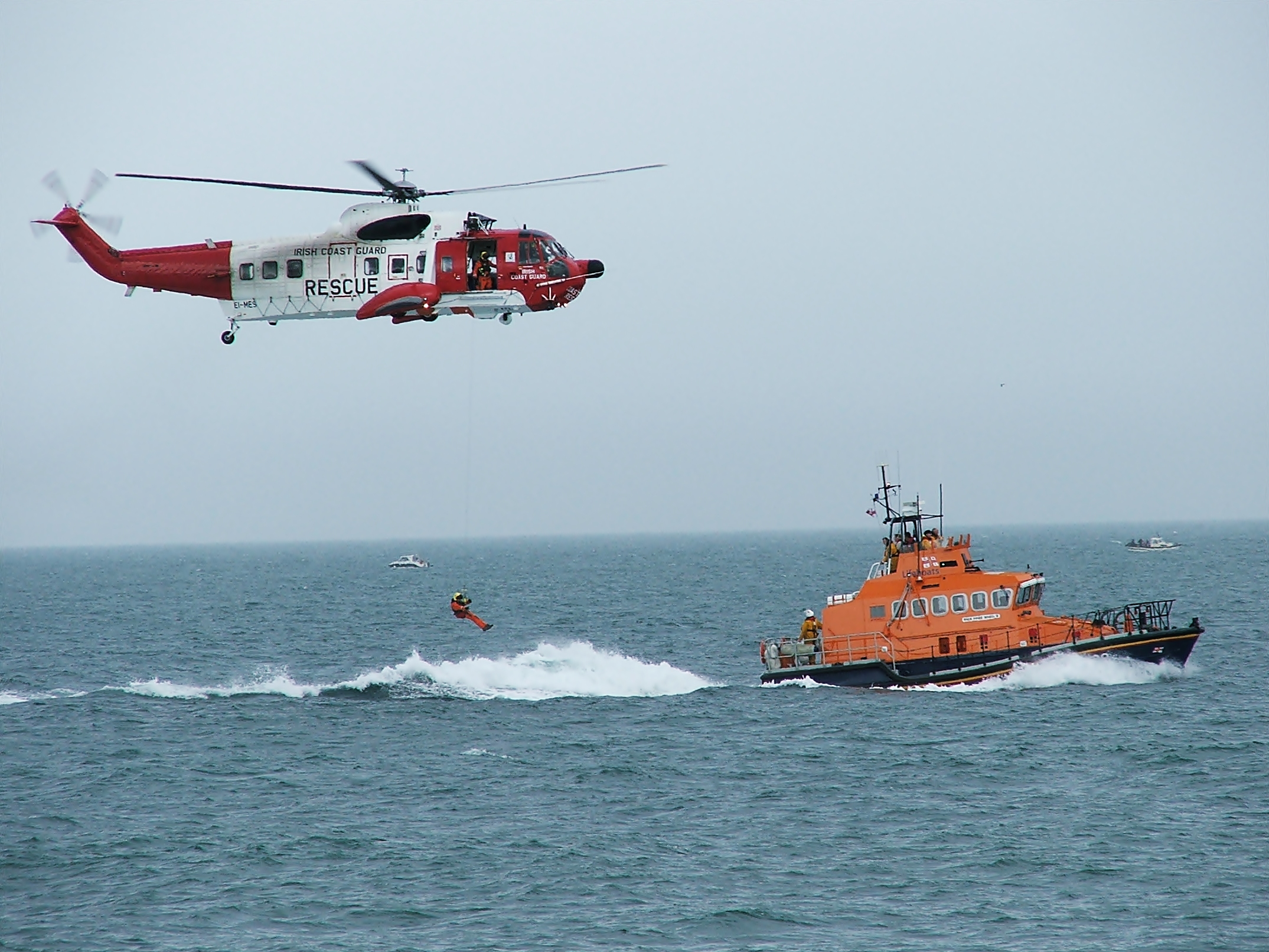 A sea-rescue demonstration given by the Irish Coast Guard (helicopter) and the RNLI at Bray, Wicklow, Ireland.